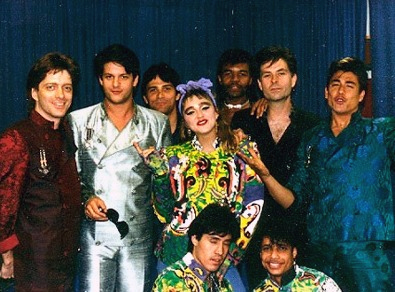 Madonna with her band during The Virgin Tour of 1985.